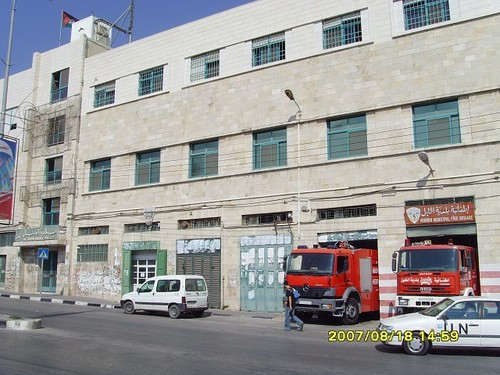 Hebron City